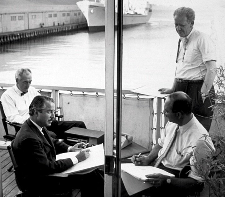 Walter Landor, founder of Landor Associates, at work on deck the Klamath offices (probably in the 1960s).